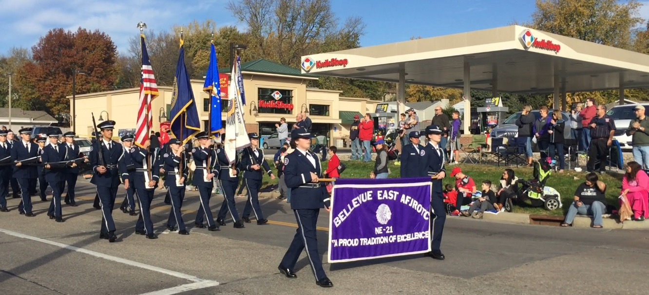 Bellevue East High School, Nebraska, AFJROTC unit in 2016 Veteran's Day Parade.